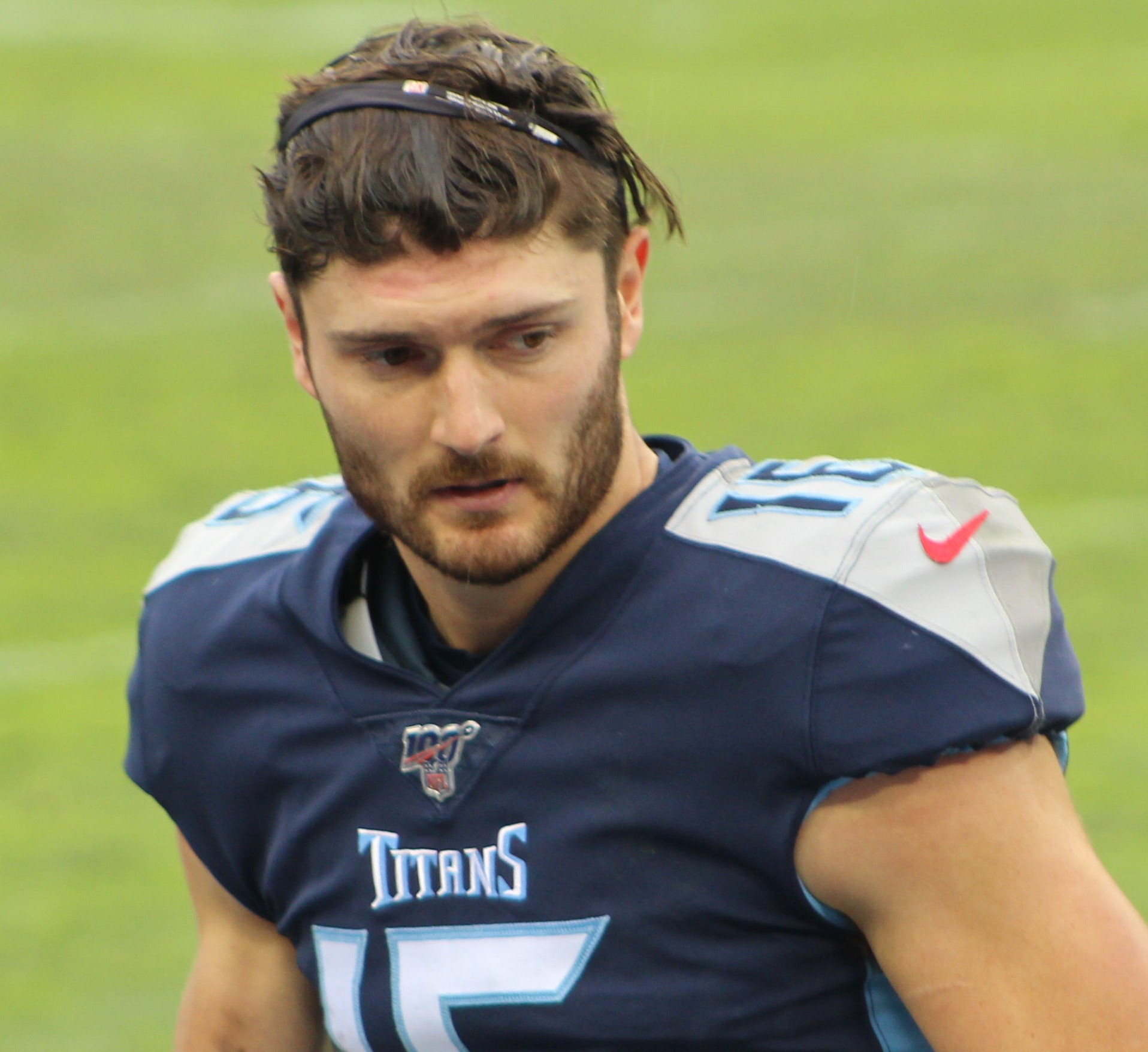 Hollister with the Titans on December 22, 2019